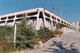 Carpet museum of Tehran, taken by Elke Parsa in 2004.